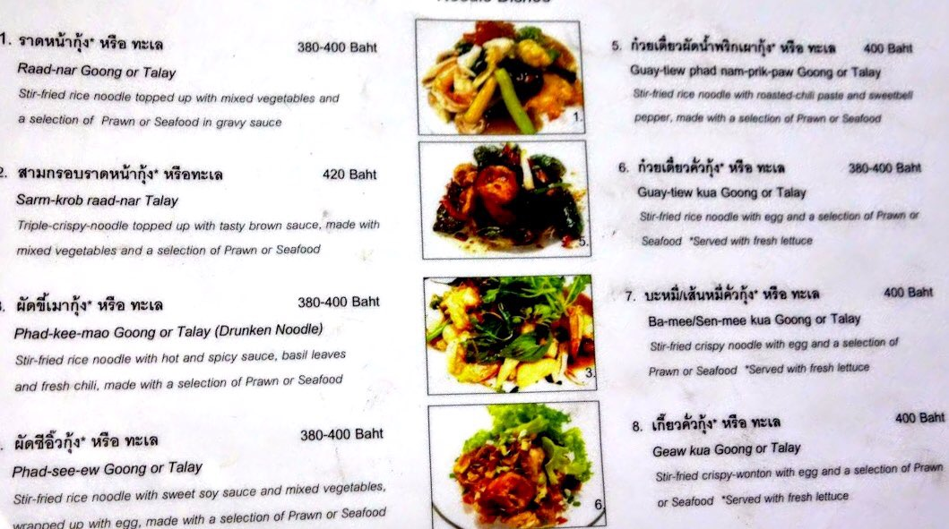 Jay fai, bangkok, menu verso 2018